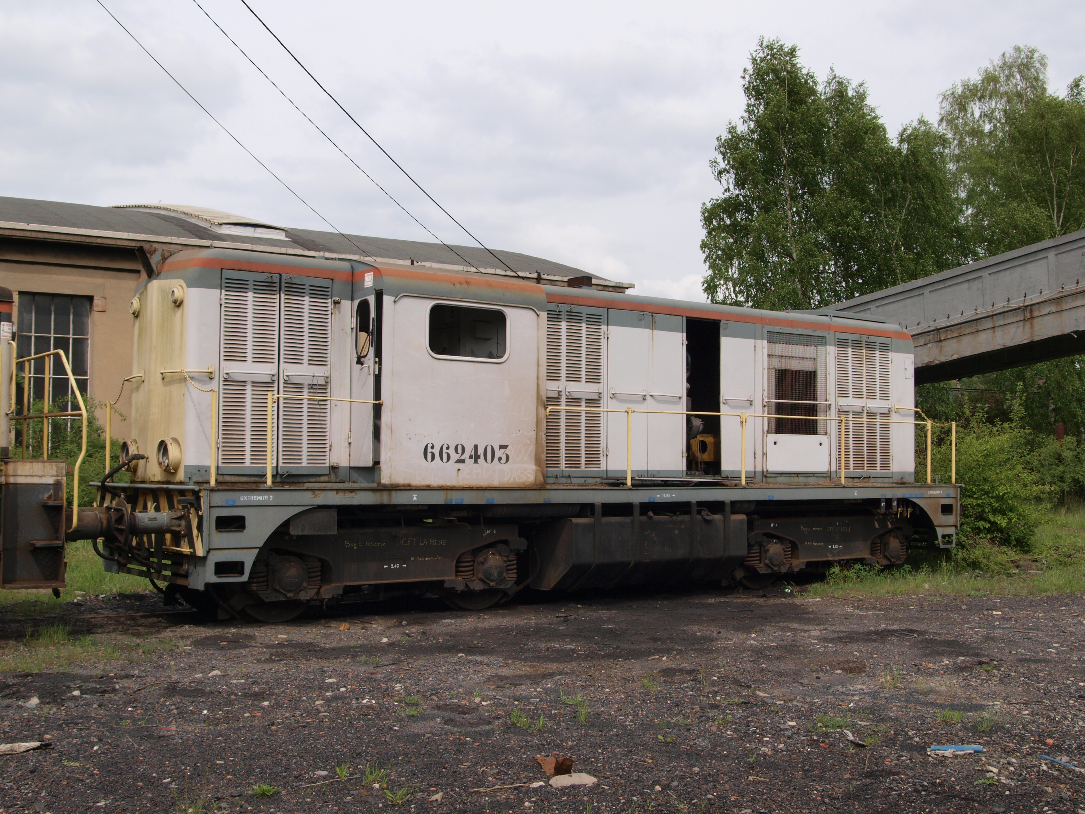 Photographed in France..